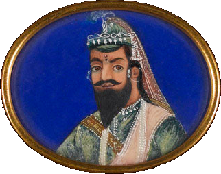 A handsome miniature of Nana Sahib found during the capture of the Nawab of Farrukhabad's palace in 1857. The Nawab was something of a reluctant rebel, having been forced into supporting the Indian Rebellion of 1857 by the presence of rebel sepoys on his territory. Yet he clearly felt an affinity for the rebel Indian rulers depicted in the miniatures as they were found on display in his bedchamber.